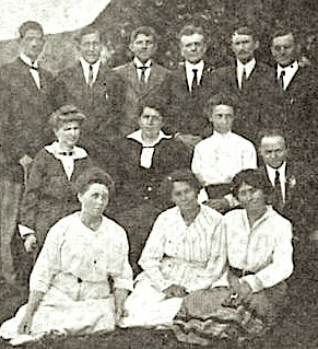 Hulda Stumpf (front, seated, left), American missionary who was killed in Kijabe, then British East Africa, after opposing FGM. The photograph shows Stumpf and other students from the Moody Bible Institute at a conference in Kijabe. The caption reads: "Former M. B. I. students at Africa Inland Mission Conference, Kijabe, B. E. Africa." Top row (left to right): L. S. Propst (class of 1905); F. E. Holland ('14); G. W. Rhoad ('02); I. S. Caldwell ('10); J. Green ('13); J. E. Raynor ('05). Middle row: Miss B. Simpson ('05); Mrs. L. S. Propst; Miss F. E. Roberts; G. Woodley ('13). Bottom row: Miss H. Stumpf ('07); Mrs. F. E. Holland ('14); Miss L. N. Collins ('05).